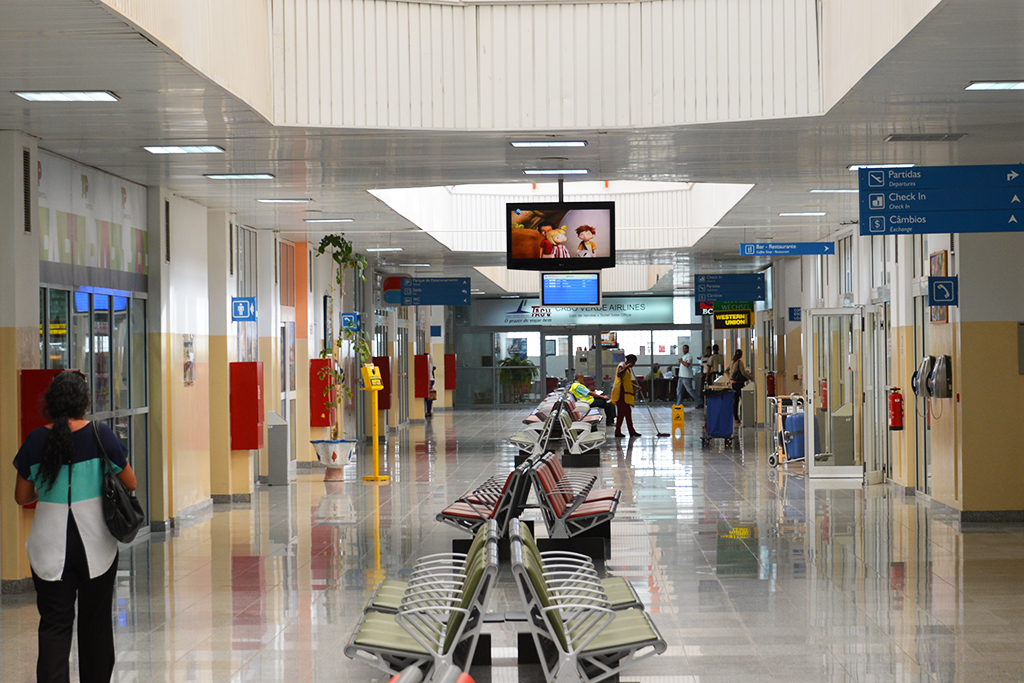 Concoursehall